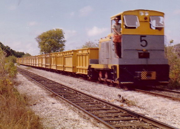 Phosphate being transported to Aiwo by train, in Nauru.